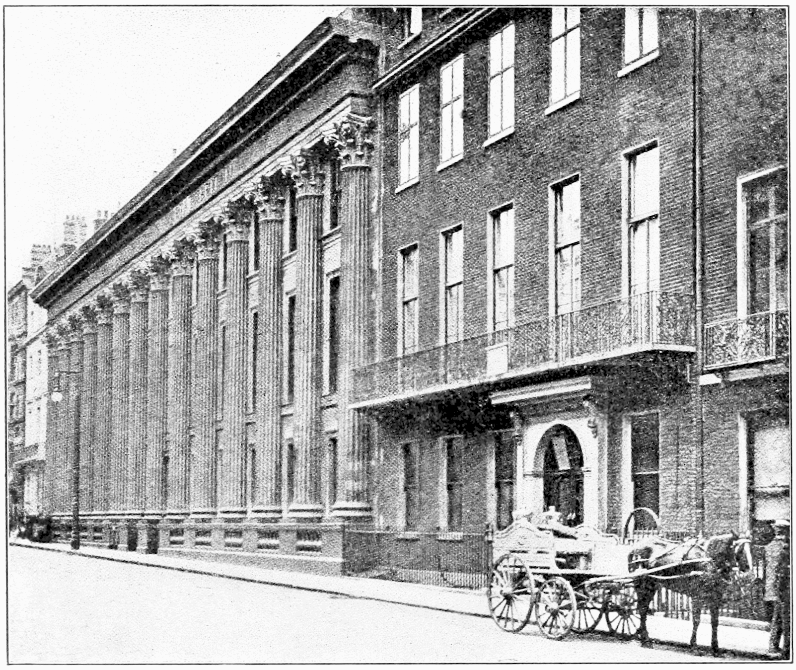 Royal Institution founded by Rumford